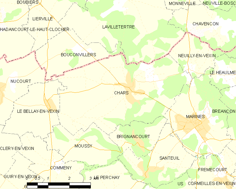 Map of French municipality Chars